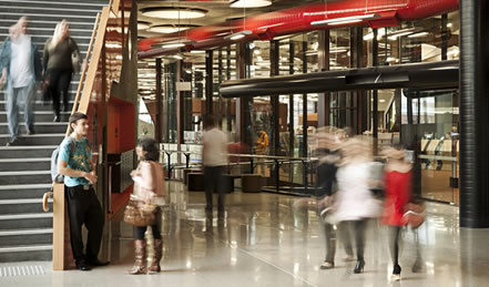 Students standing near stairs and walking outside library at 30 Aberdeen Street campus of North Metropolitan TAFE